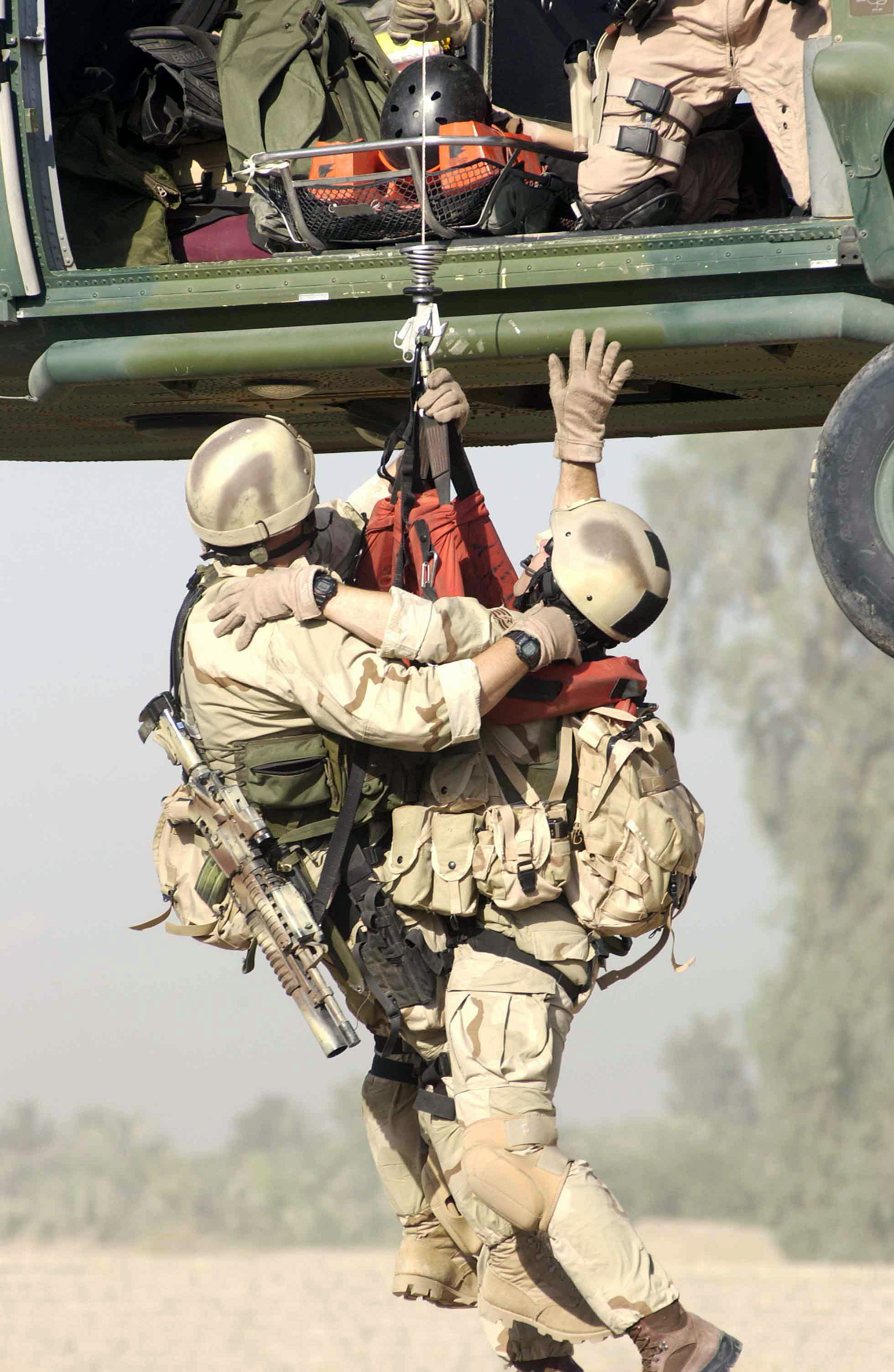 US Air Force (USAF) Pararescue personnel assigned to Baghdad International Airport (BIAP), perform a hoist extraction of a survivor during an Urban Operations Training Exercise (UOTE) at the Maltz training site, in support of Operation IRAQI FREEDOM. (Released to Public) Contents 1 DoD photo by: 2 Date Shot: 3 Source 4 Licensing 5 Original upload log DoD photo by: MSGT JAMES M. BOWMAN, USAF Date Shot: 3 Jul 2003 Source Thumbnail and caption Image